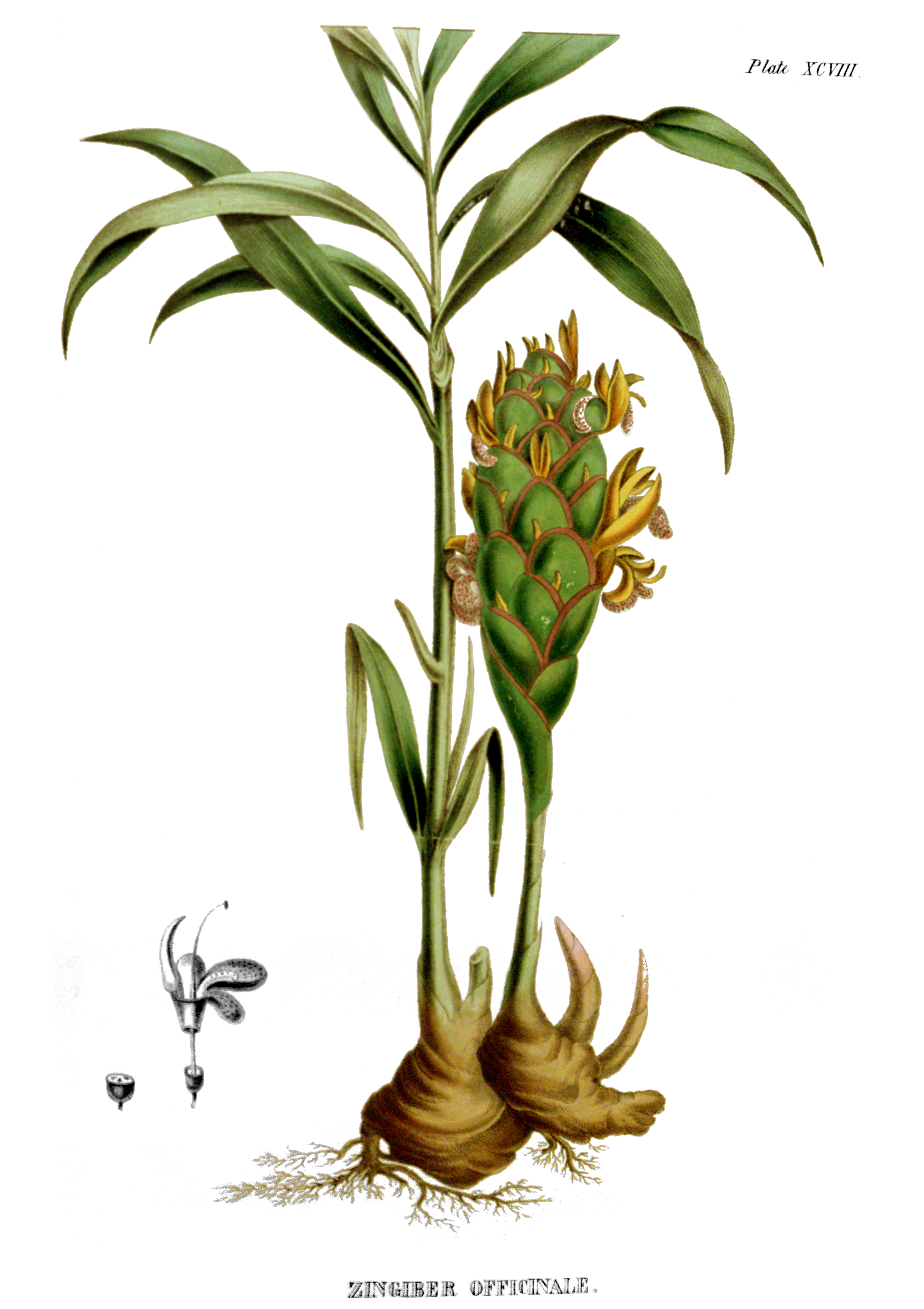 Zingiber officinale Plate No. 98, from Illustrations of medical botany: consisting of coloured figures of the plants affording the important articles of the materia medica, and descriptive letterpress, Vol 2